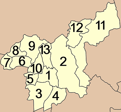 Map of Saraburi province, Thailand, showing the Amphoe numbered. Mueang Saraburi Kaeng Khoi Nong Khae Wihan Daeng Nong Saeng Ban Mo Don Phut Nong Don Phra Phutthabat Sao Hai Muak Lek Wang Muang Chaloem Phra Kiat